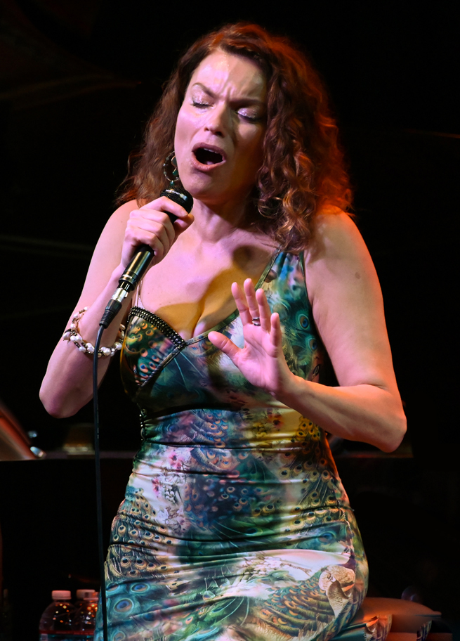 Roberta Gambarini at Kuumbwa Jazz Center, Santa Cruz CA 3/25/19. Photo by Brian McMillen /